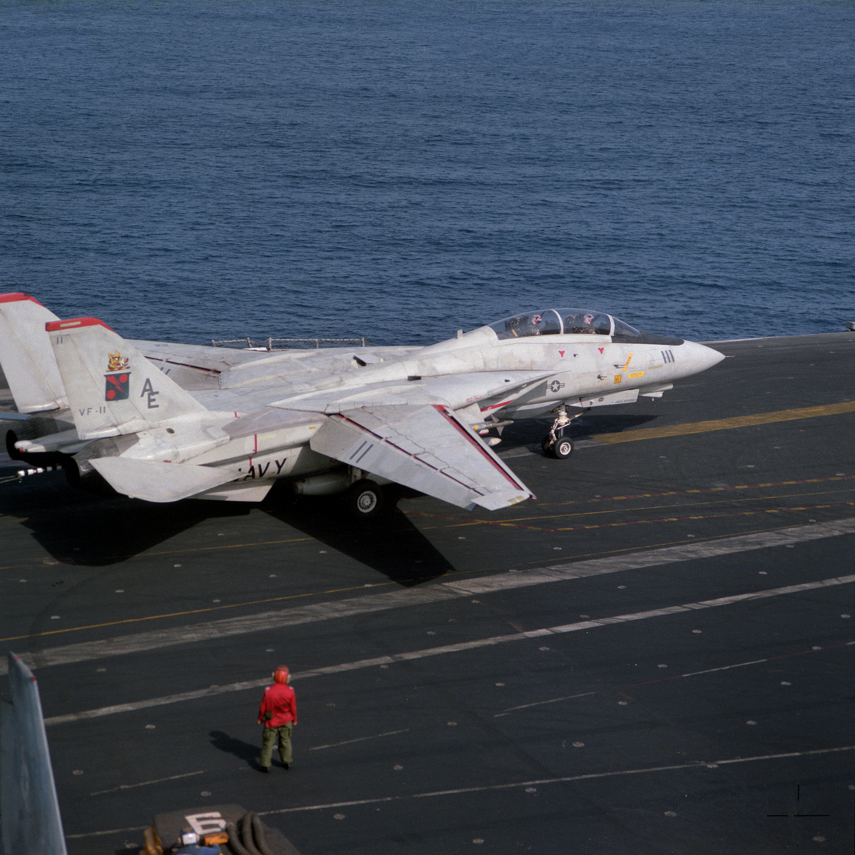 A U.S. Navy Grumman F-14A Tomcat from to Fighter Squadron 11 (VF-11) "Red Rippers" comes to a stop after landing on the aircraft carrier USS Forrestal (CV-59). VF-11 was assigned to Carrier Air Wing 6 (CVW-6) aboard the Forrestal for a deployment to the Mediterranean Sea and the Indian Ocean from 25 April to 7 October 1988.